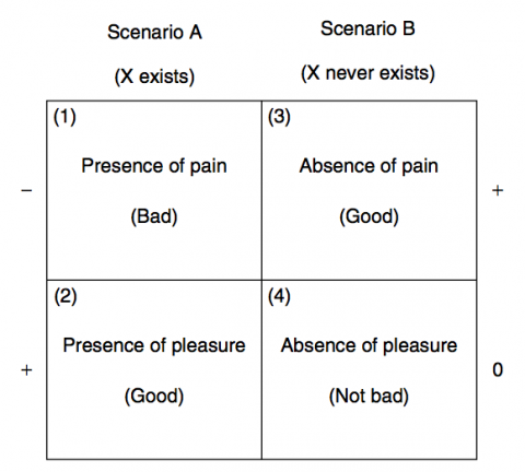 Benatar's asymmetry